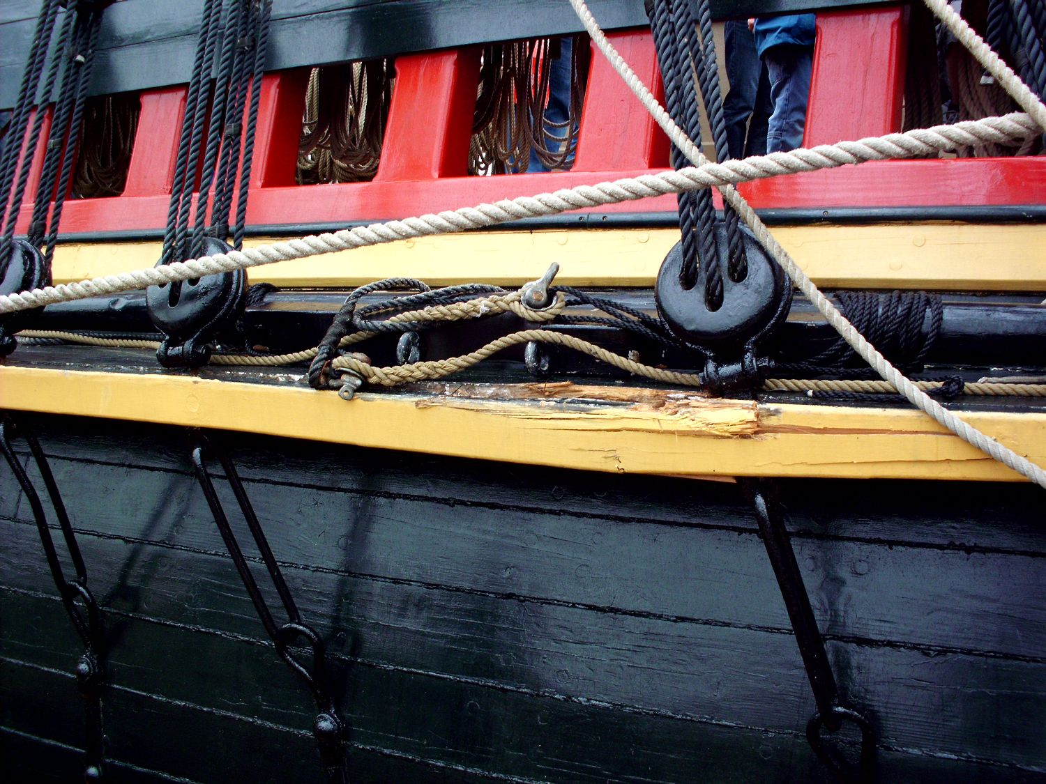 Bounty II - damage on the larboard side in Bremerhaven